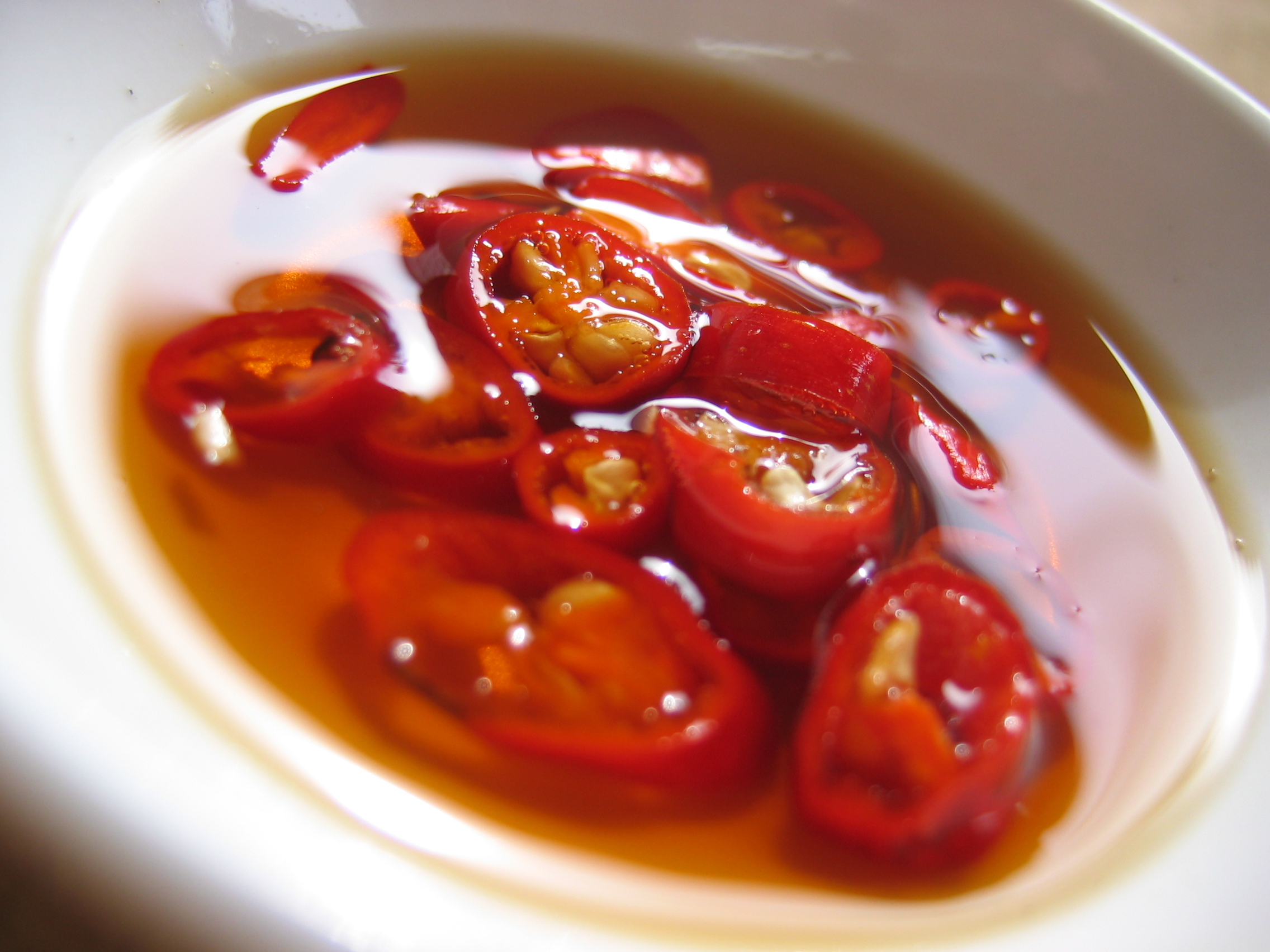 Sliced red chili peppers in soy sauce